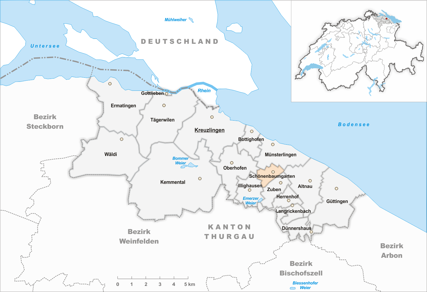 Municipality Schönenbaumgarten